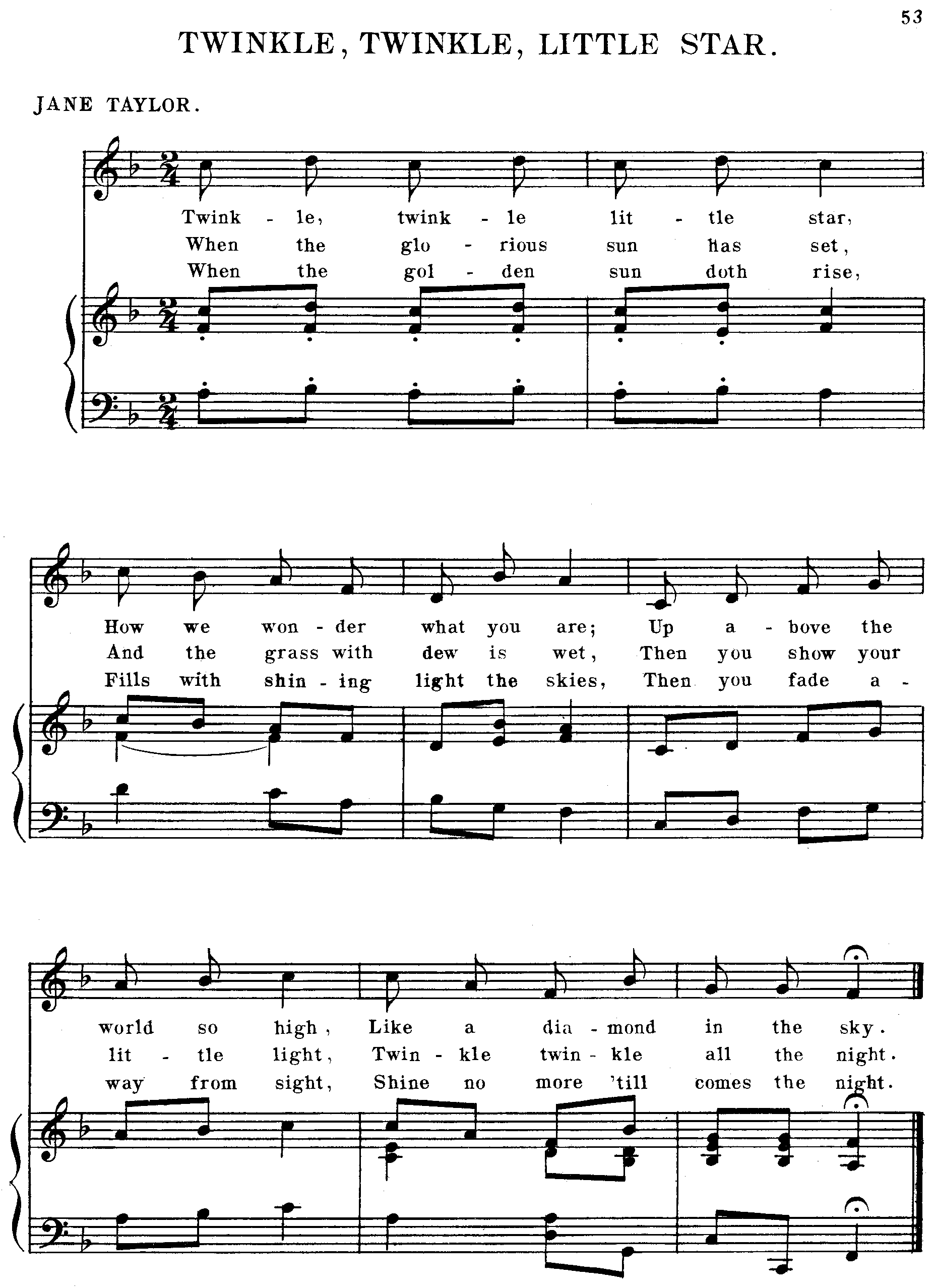 A page of sheet music from "Song Stories for the Kindergarten" (1896), the book is in the public domain. The file sourced from